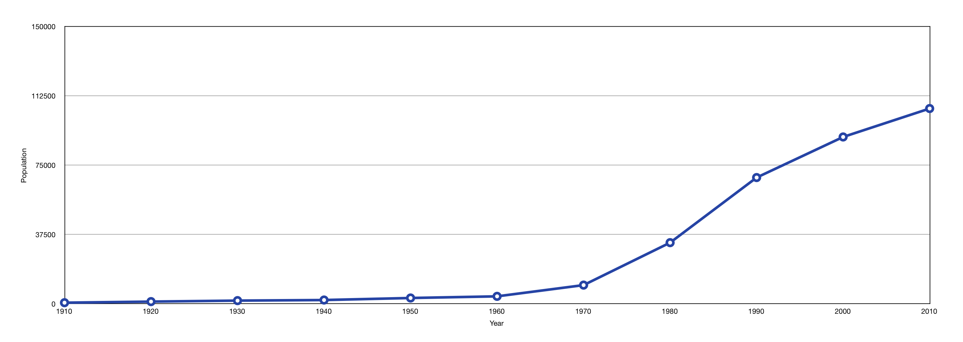 Gresham's population, Oregon, (1910-2010).